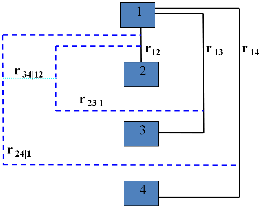 An example of a canonical vine, aka C-vine, on 4 variables (from probability theory